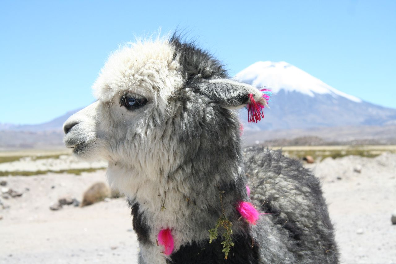 Pet Alpaca at Lauca National Park, Chile, at about 4000m altitude.